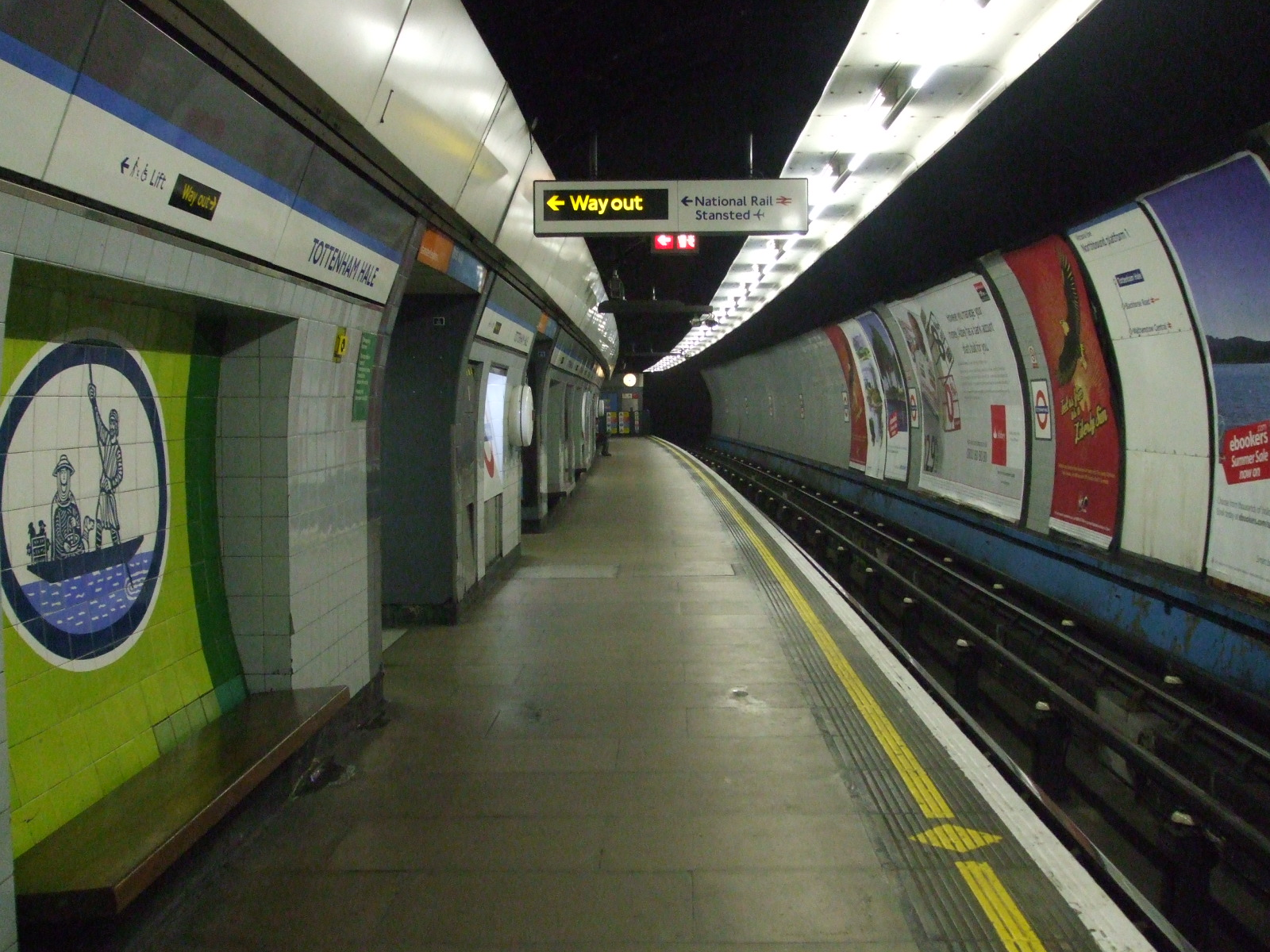 Tottenham Hale station Victoria line northbound platform looking south